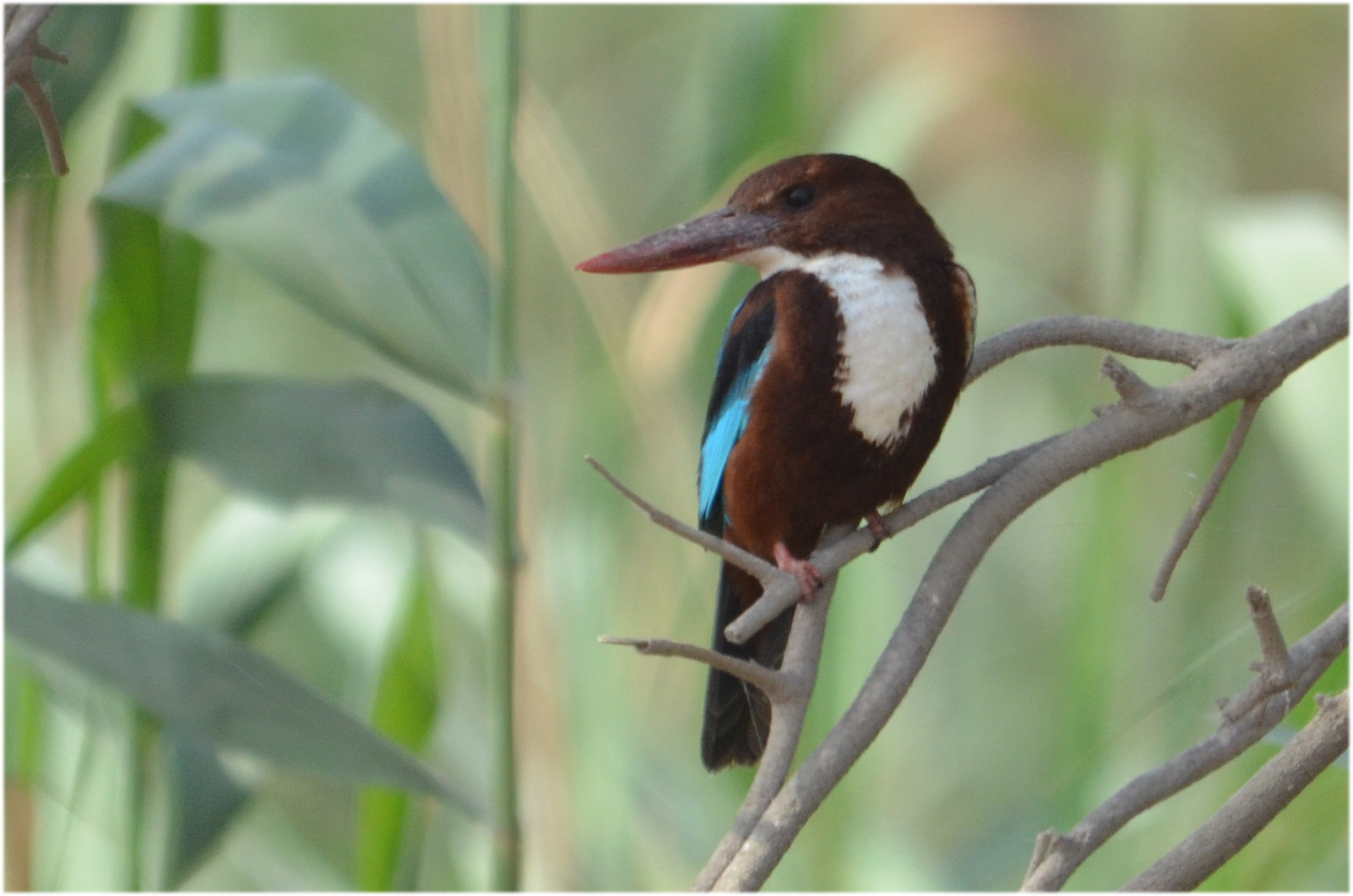 White-throated kingfisher